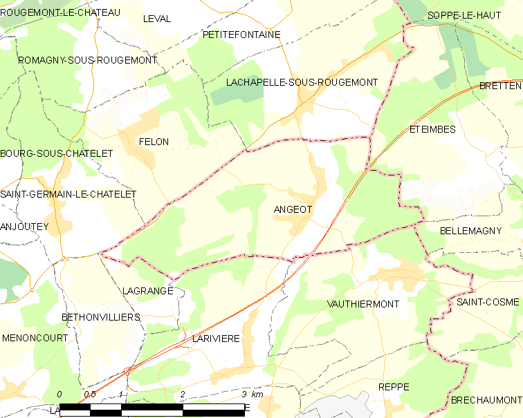 Map of French municipality Angeot